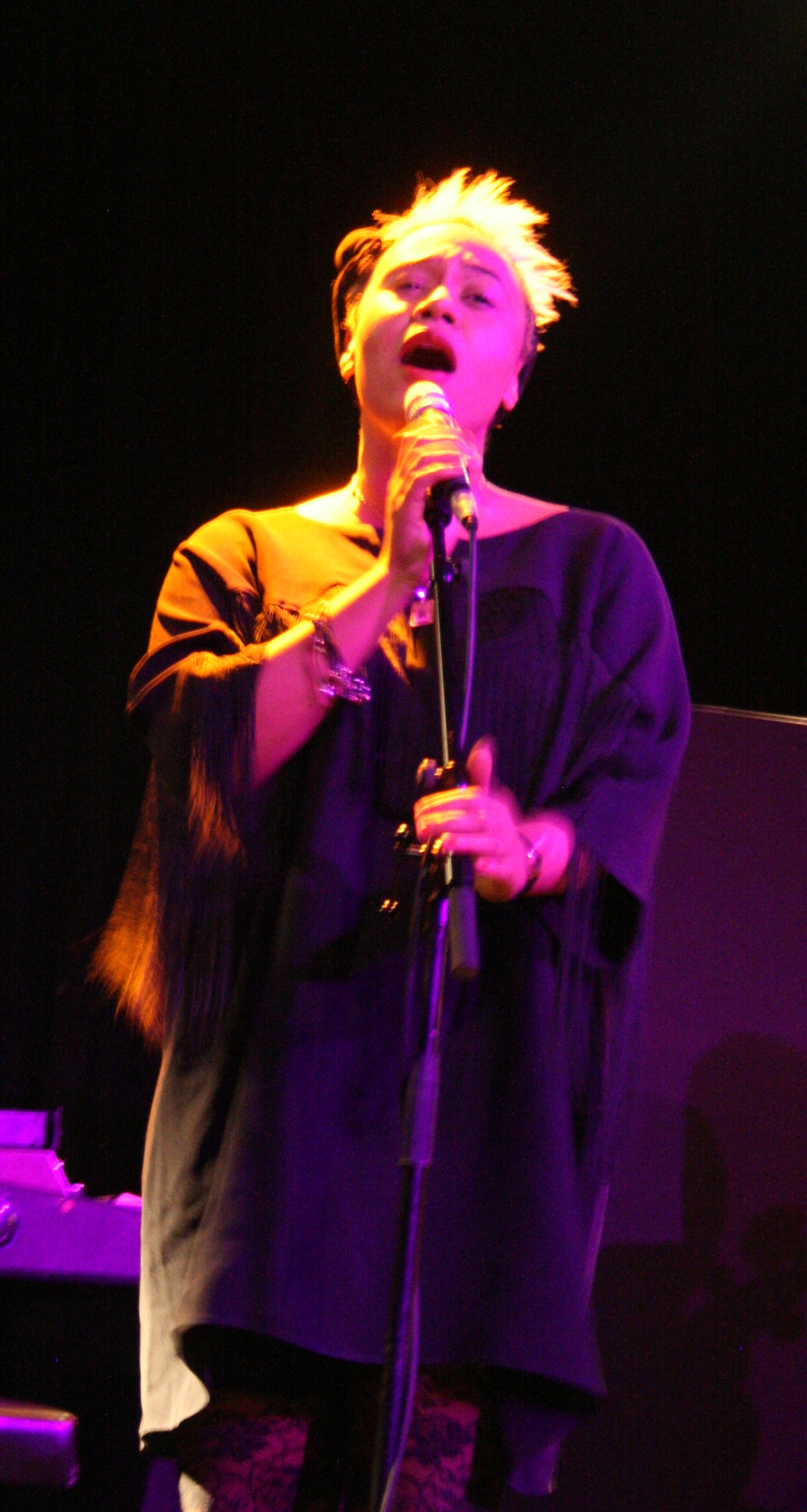 Sandé performing live April 12, 2011